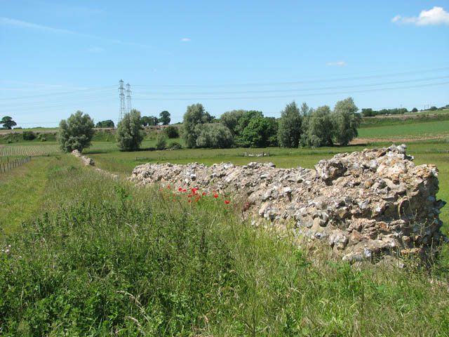 Venta Icenorum - north wall, near to Caistor st Edmund, Norfolk, Great Britain. The busy London to Norwich railway line can be seen in the background. Before the arrival of the Romans in the area, Norfolk and Suffolk were the home of the Iceni, who in AD 61 rebelled against Roman rule, led by their Queen Boudica. The revolt was suppressed and the town of Venta Icenorum was established in order to bring stability to the area. 'Venta Icenorum' means 'Market Place of the Iceni'. The outline of the streets, which are arranged in a rectangular pattern, can be seen in dry weather as brown lines in the grass, where sheep now graze a large pasture which once used to be the town centre. A massive flint and stone wall of up to 7 metres high and 4 metres thick, and an outer ditch were constructed in the late AD 200s to defend the town which by then had decreased in size to about 14 hectares. The ditch was 24 metres wide and about 5 metres deep. The site is owned and managed by the Norfolk Archaeological Trust and can best be seen from elevated positions of the A140 (Ispwich Road) or from the main London to Norwich railway line. There are two signposted walks, one leading around the Roman defences, the other following the course of the River Tas. Just to the east of the site there is a Early Saxon cemetery, and on raised ground to the north both an Iron Age burial site and Saxon cemetery have been excavated. The Arminghall Henge is located to the north-east.